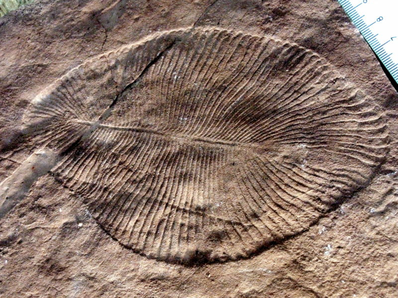 Dickinsonia costata, an Ediacarian type animal.